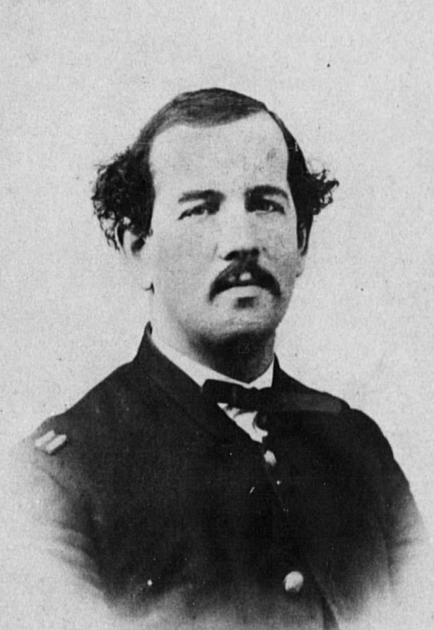 Carte de visite of U.S. Medal of Honor winner, Capt. Eugene W. Ferris, Co. D, 30th Massachusetts Volunteer Infantry, circa 1865. Source: NARA M1064, Record Group 94: Letters and their enclosures received by the Commission Branch of the Adjutant General's Office, 1863-70. Washington, D.C.: U.S. National Archives and Records Administration (access provided via The Wikipedia Library and Fold3; retrieved online August 17, 2018).